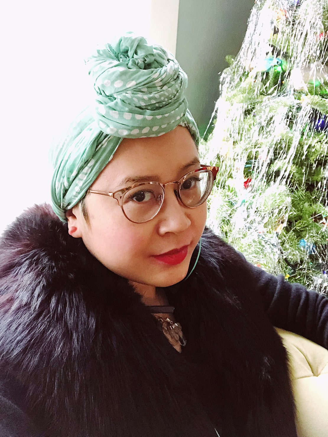 Take photo for Wikipedia page